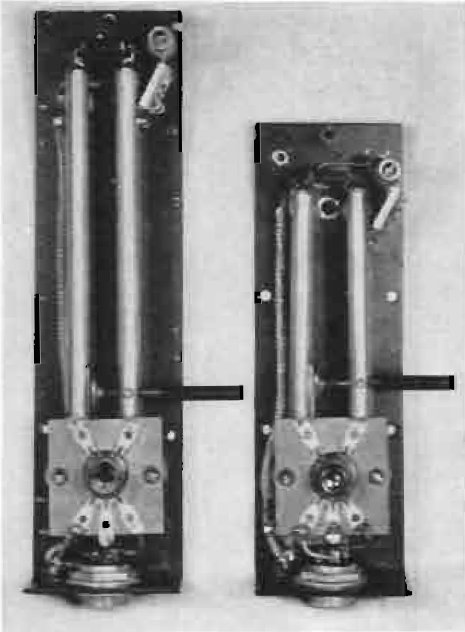 Resonant stub tank lines (Lecher lines) in portable 200-300 MHz UHF vacuum tube transmitter from 1938. These were part of a backpack transceiver for remote broadcasts developed by radio station KCMO in the 30s. Each pair of parallel rods constitute a length of open-circuited transmission line. They are connected to the plate circuit of the type 955 "acorn" vacuum tube oscillator and function as a high-Q W:resonant circuit to determine the frequency of the transmitter. The lefthand one oscillates around 200 MHz, the righthand one 300 MHz. The rods are 3/8 inch solid brass, spaced 3/4 inch apart, approximately 1/8 wevelength long, tuned by a trimmer capacitor near the ends/